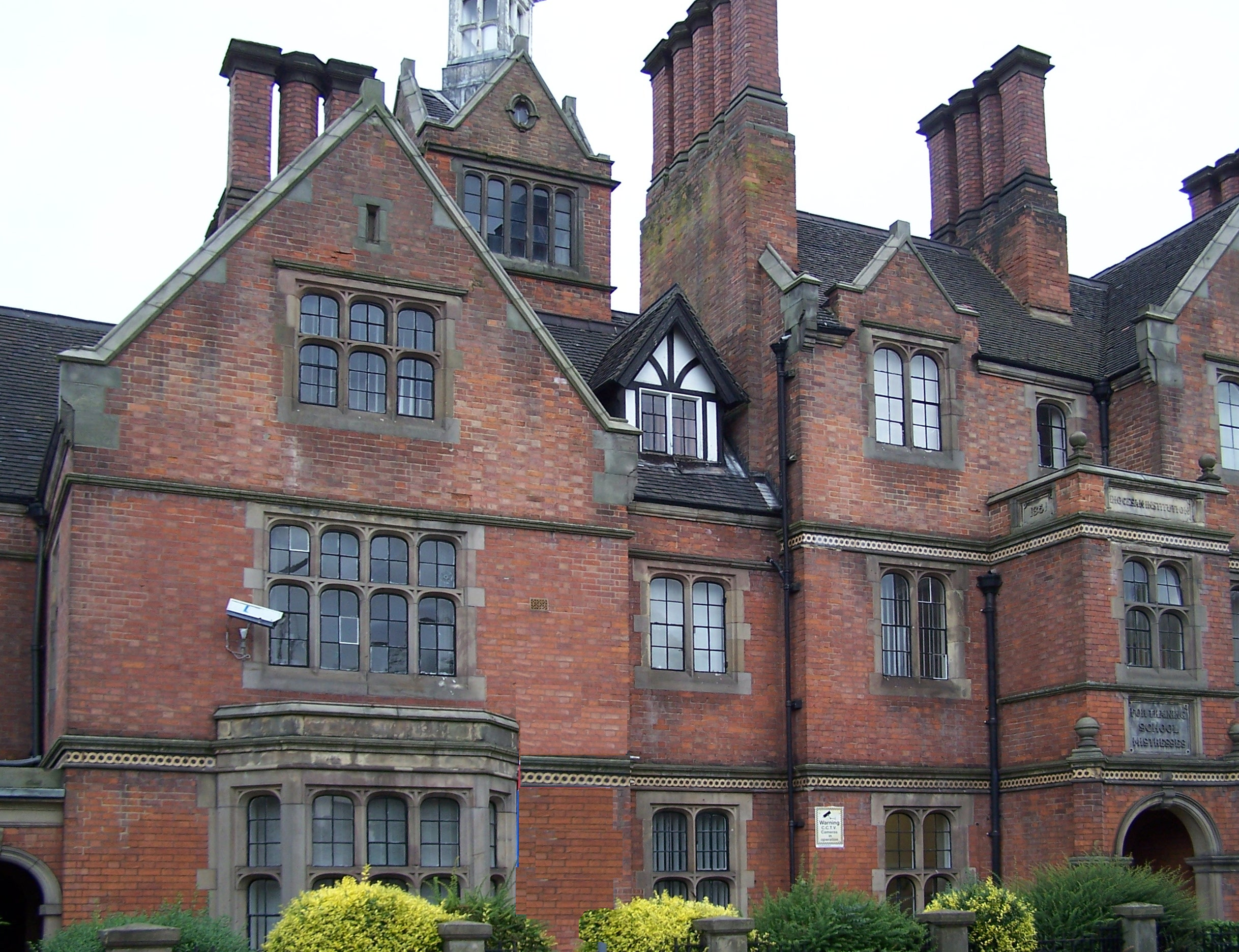 Old College, formerly Girls School. Uttoxeter Rd Derby